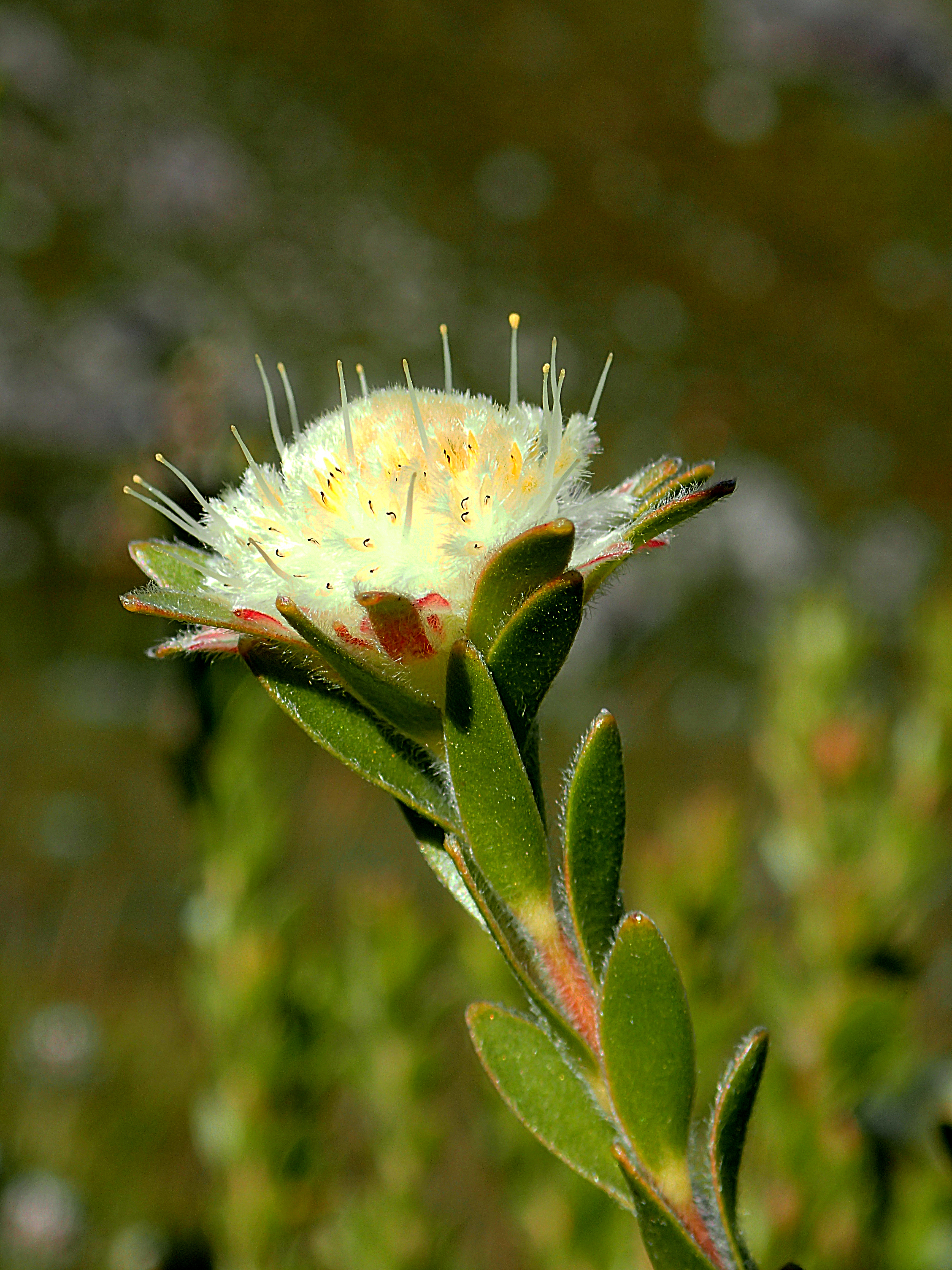 Palmiet silkypuff Diastella fraterna photographed in the Hottentots Holland Mountains just north of Kleinmond, SA